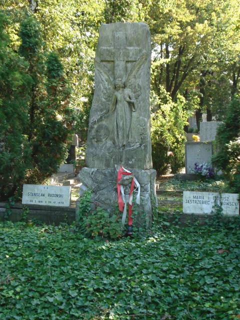 The tombstone of Damazy Pobóg-Trzciński (1833-1907) at the Górczyn Cemetery in Poznań.